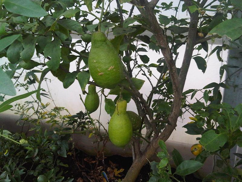 Lemon (Citrus × limon) fruits in a butterfly exhibition at the Natural History Museum in London, England.